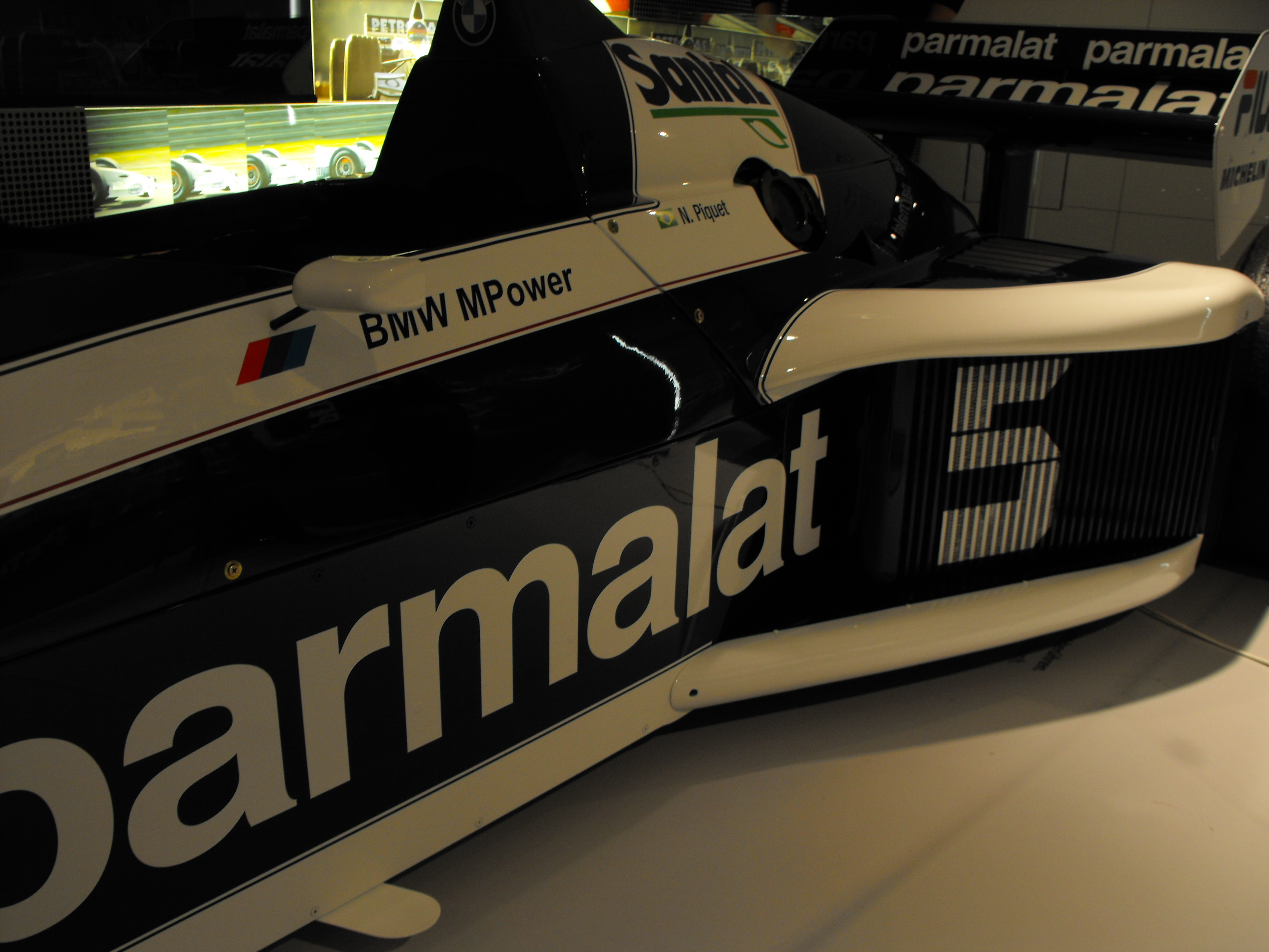 BRABHAM BMW BT52 1983